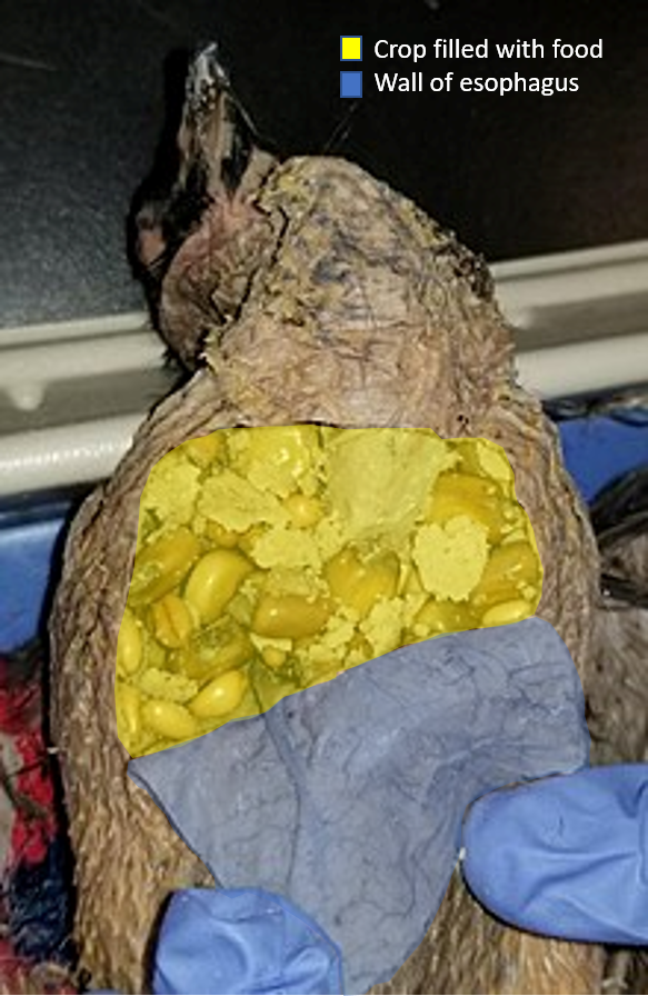 Dissected pigeon showing labelled crop filled with food and the wall of the esophagus that has been reflected back.